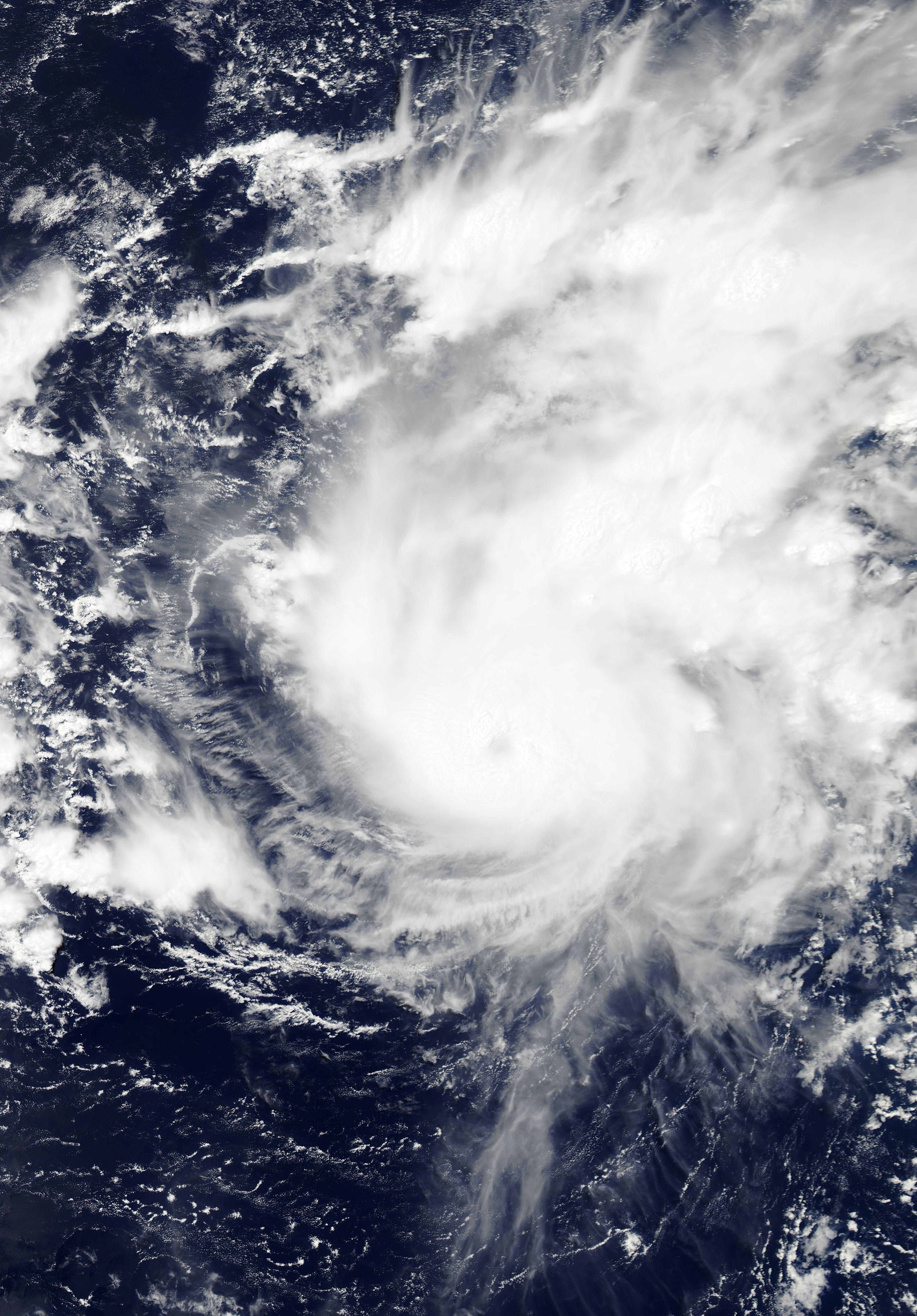 Typhoon Halola on July 14, 2015 after enter into the Western Pacific Basin, and at its peak intensity.